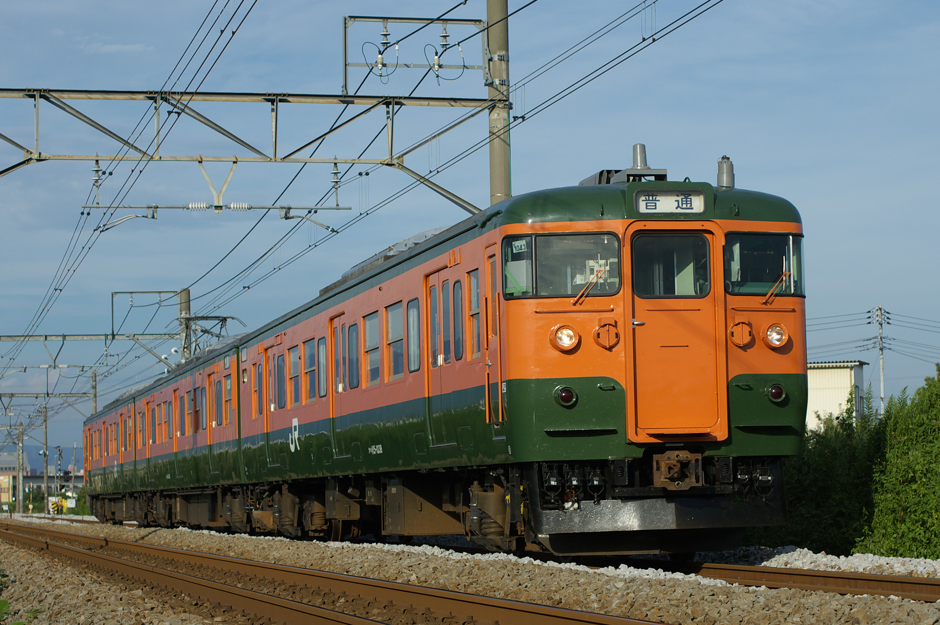 JR East(previously JNR) 115 series electric car(Shonan-color), Joetsu line..